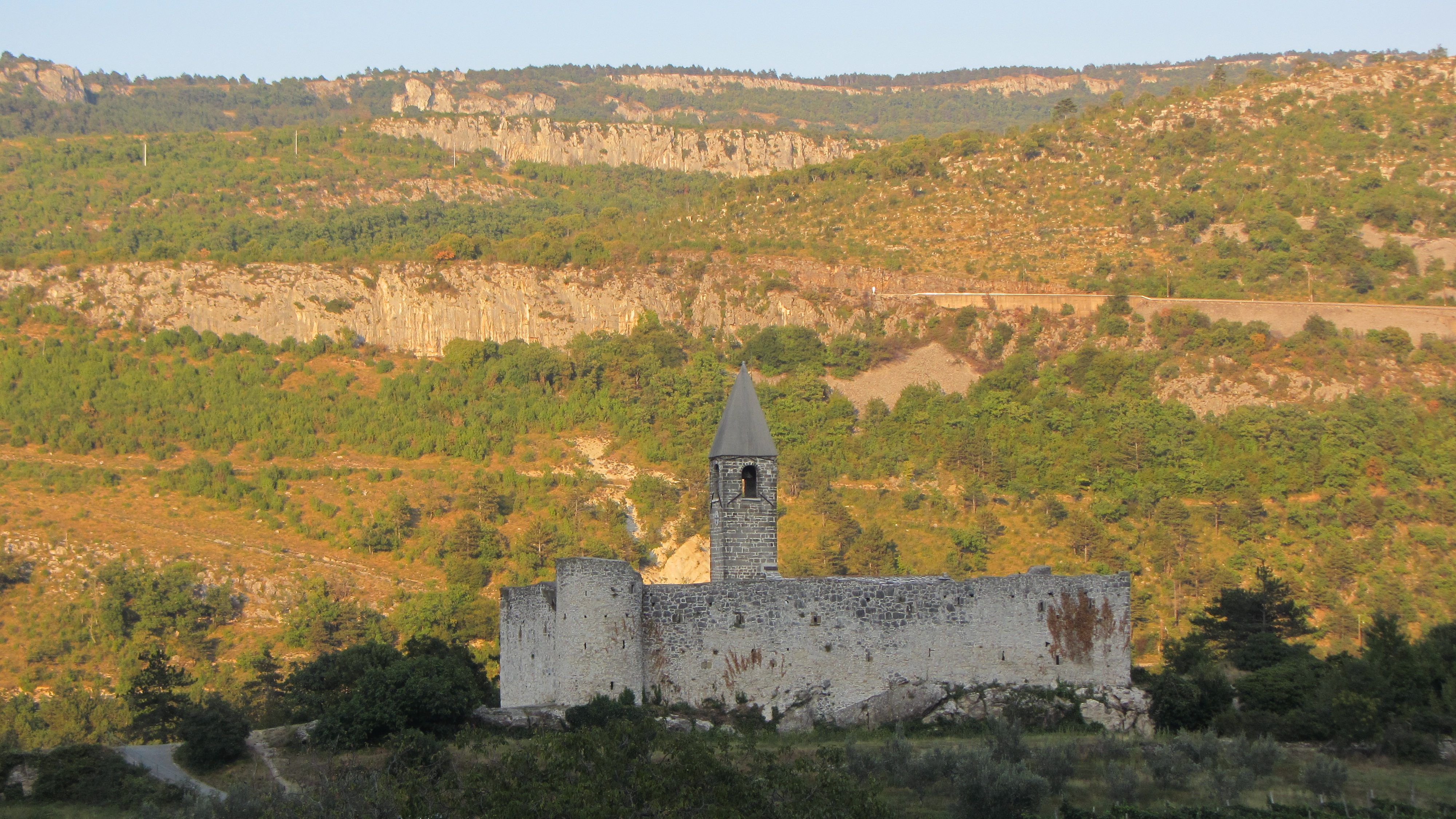 Fortified church